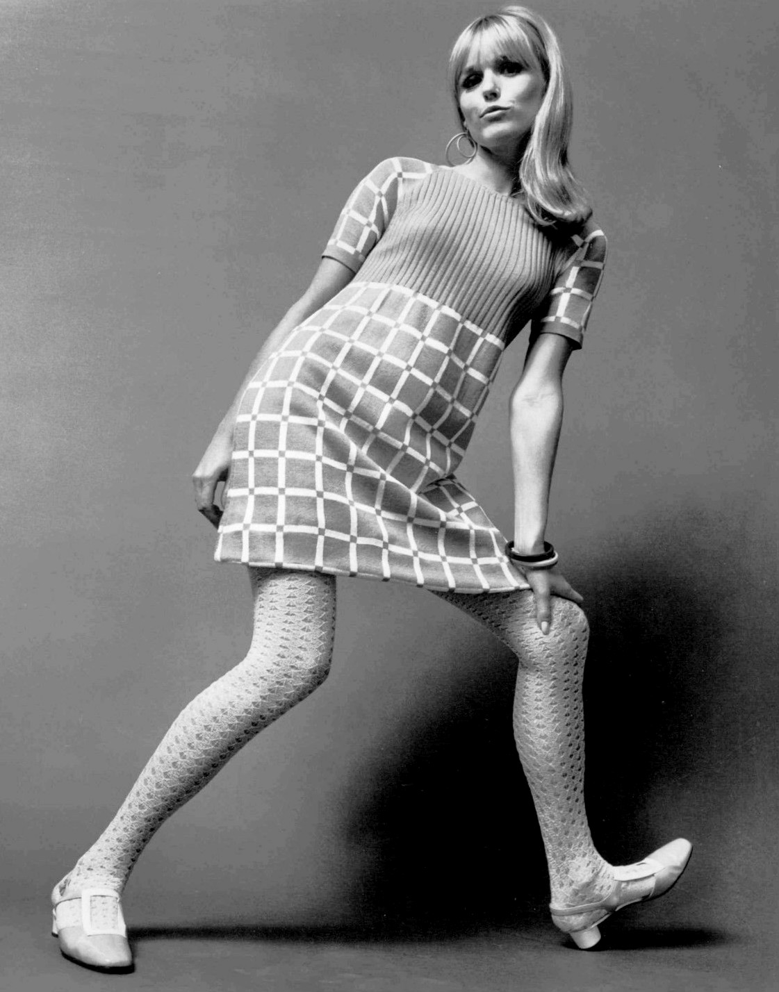 Photo of a model wearing a sweater-knit dress with patterned tights and chunky shoes.